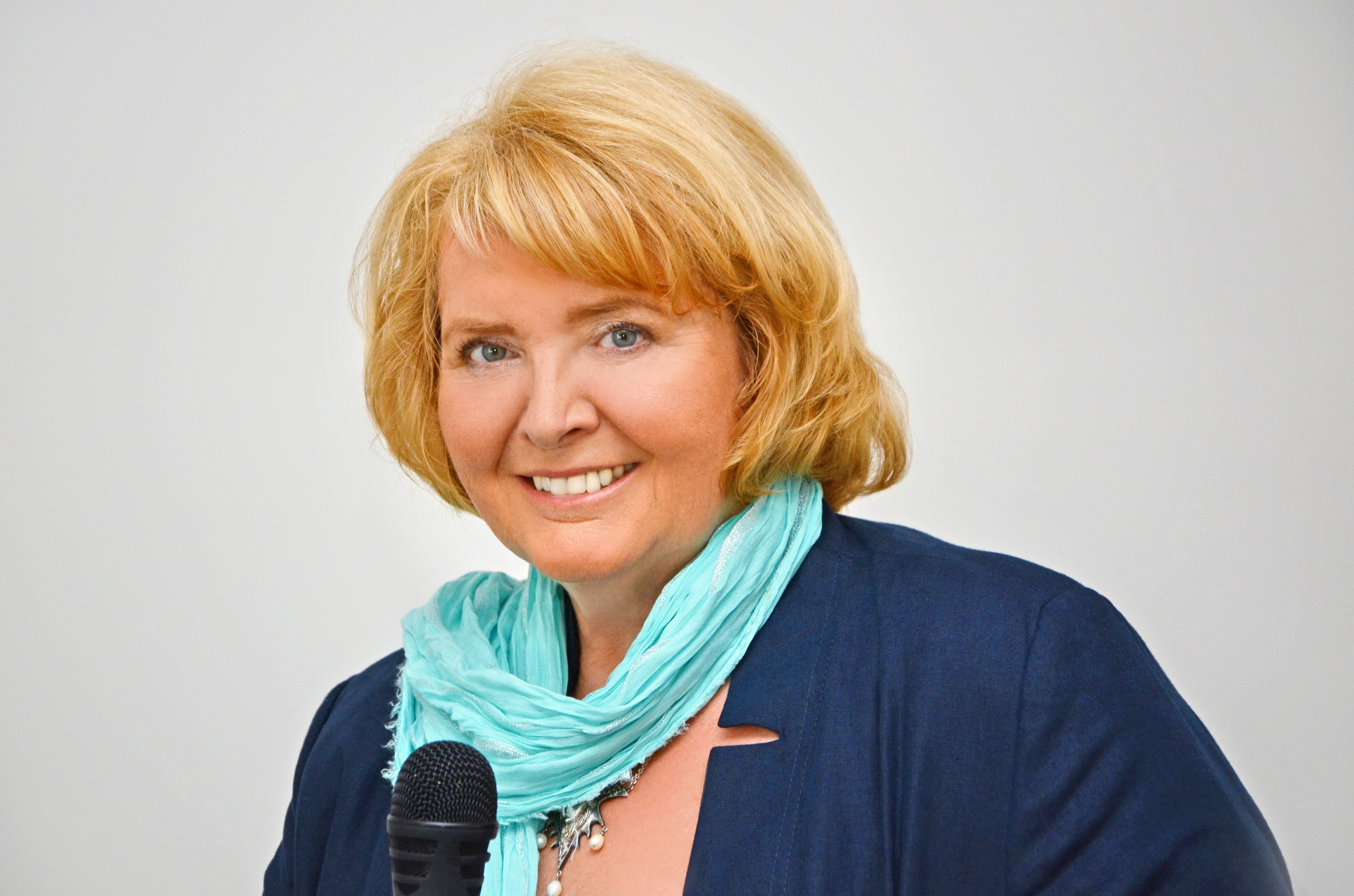 Portrait of Lída Rakušanová/ Ludmila Rakusan